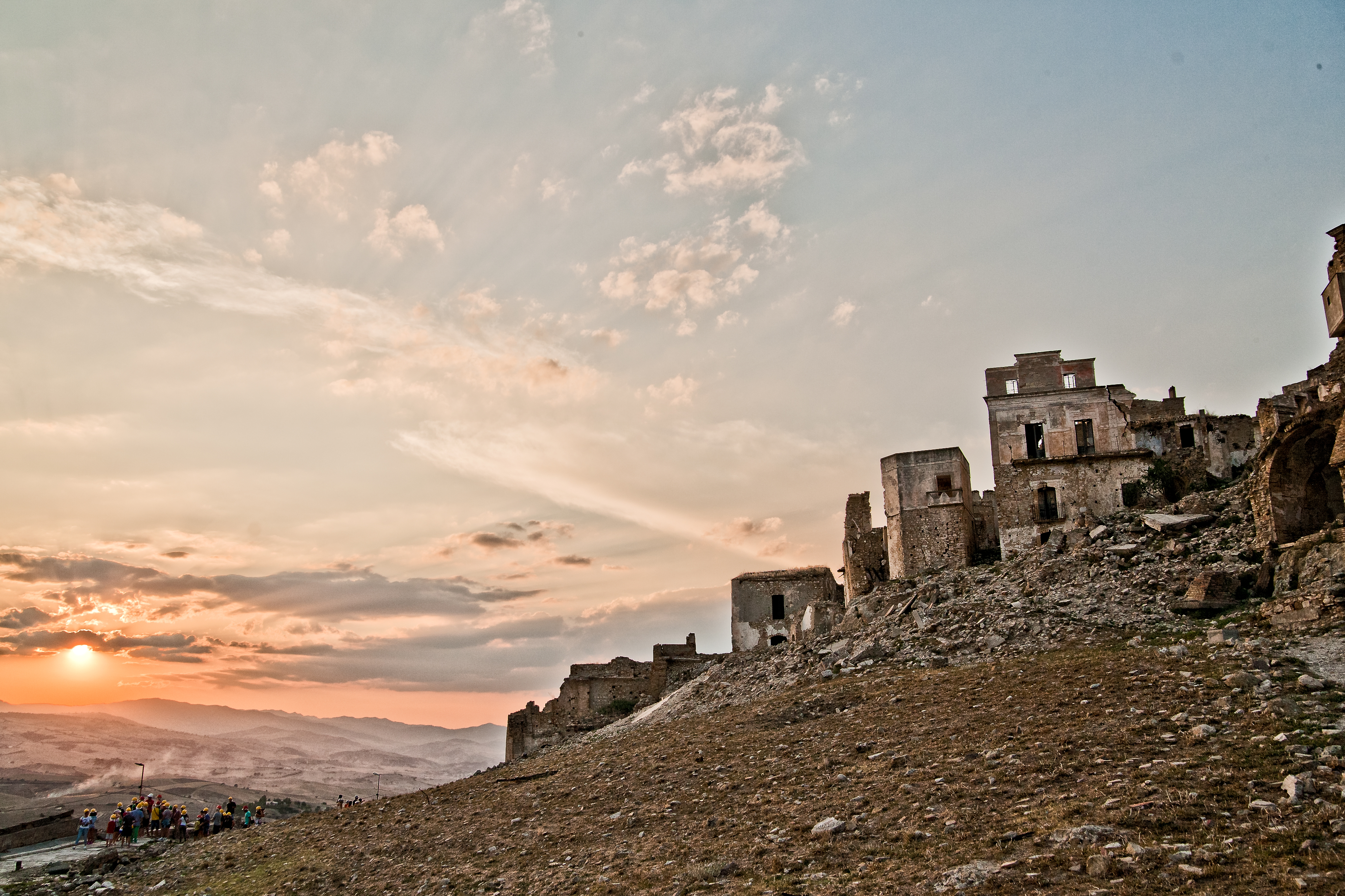 Ghost town of Craco, Basilicata